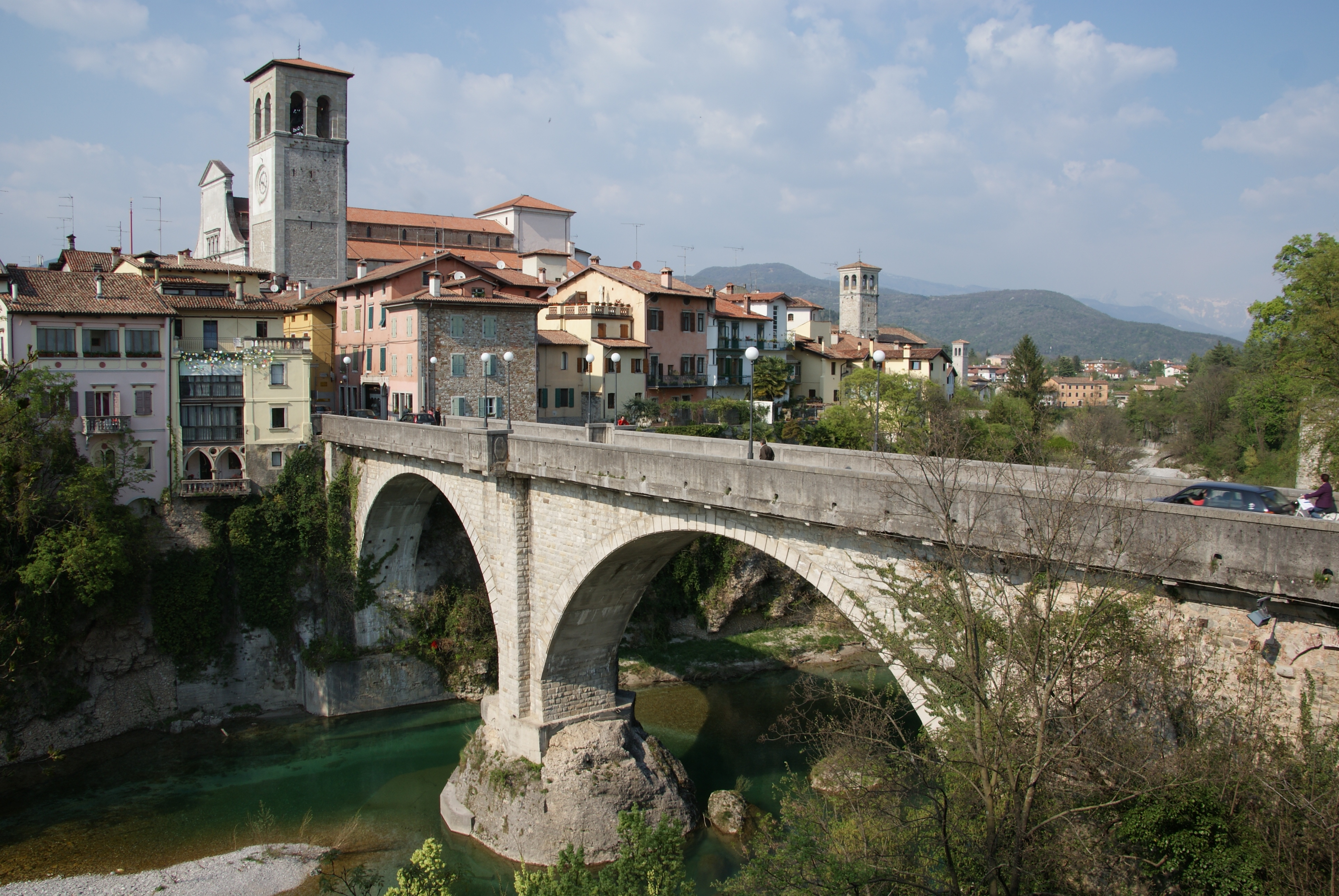 Cividale del Friuli, Cathedral Santa Maria Assunta and Ponto del Diavolo